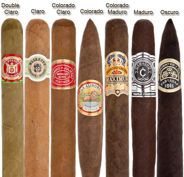 Cigar Wrapper Color Chart